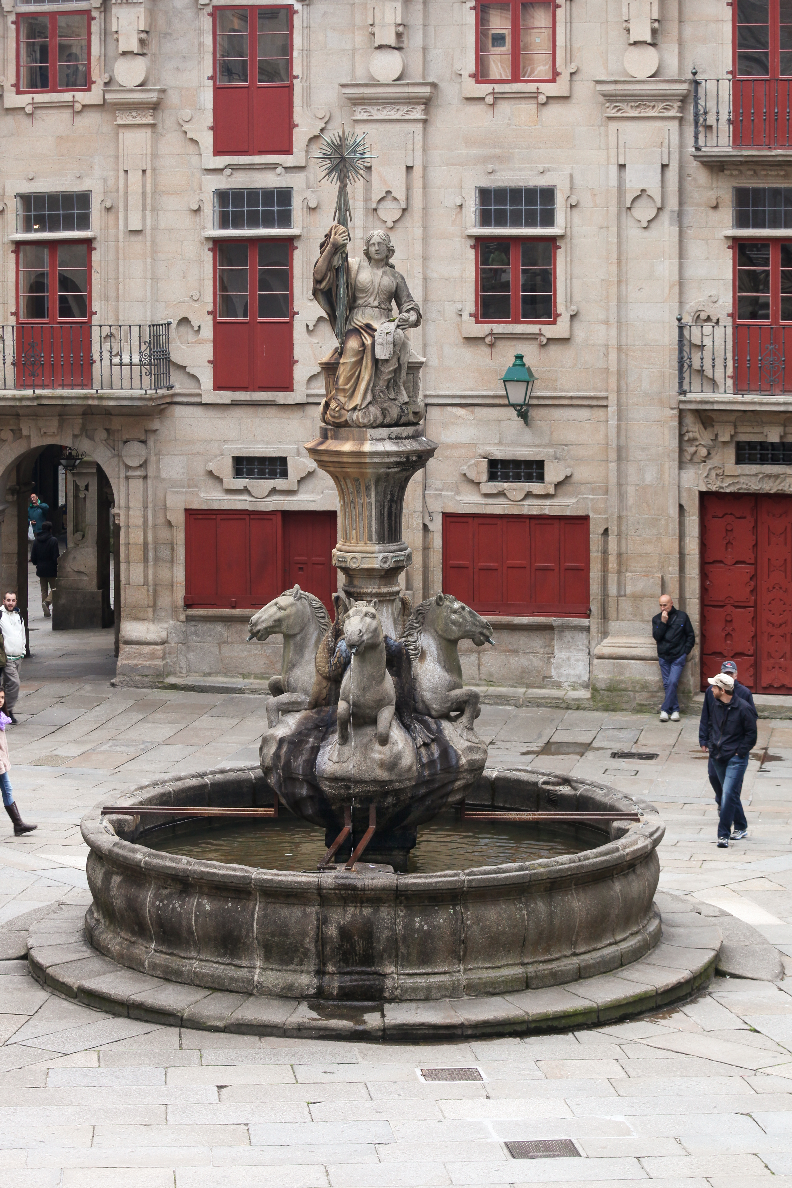 Horses fountain, Praterias square, Santiago de Compostela, Galicia (Spain)